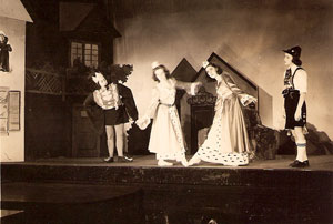 Children's Theatre of Maine performs 12 Dancing Princesses in 1942